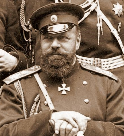 Alexander III Alexandrovich (born 1845), 13th Emperor of All the Russias (1881—1894), crospped version